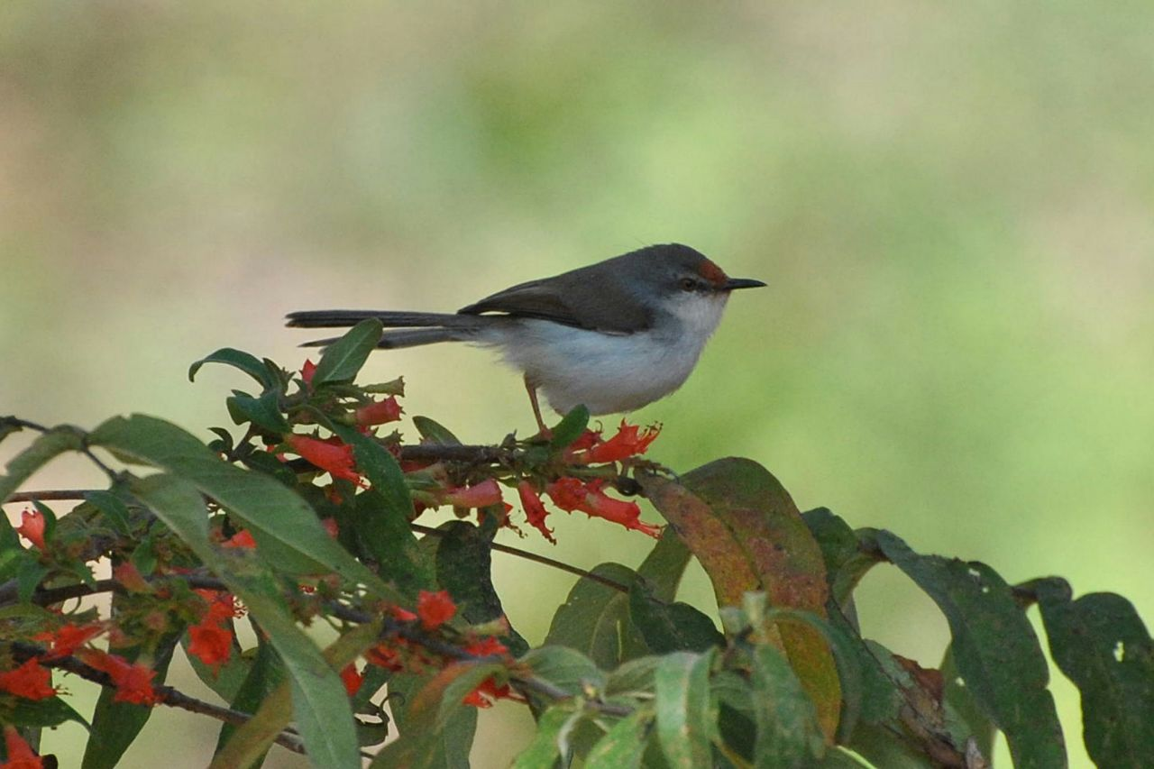 Rufous forehead from pollen staining,During summer their forehead is sometimes sprinkled with pollen giving them an orange or yellowish head.